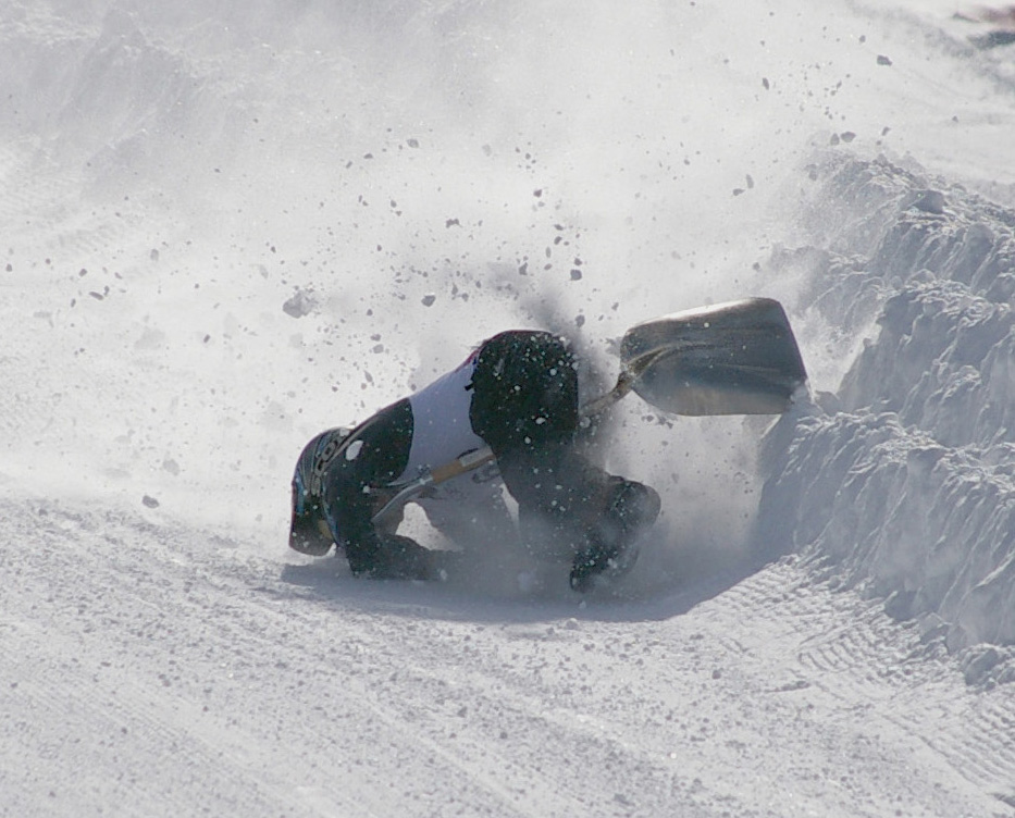 A Shovel racing competitor wipes out at the Angel Fire Shovel Races 2011.